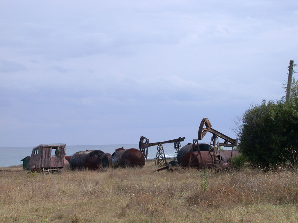 Abandoned petroleum nodding donkeys near Tyulenovo, Bulgarian North Black Sea coast